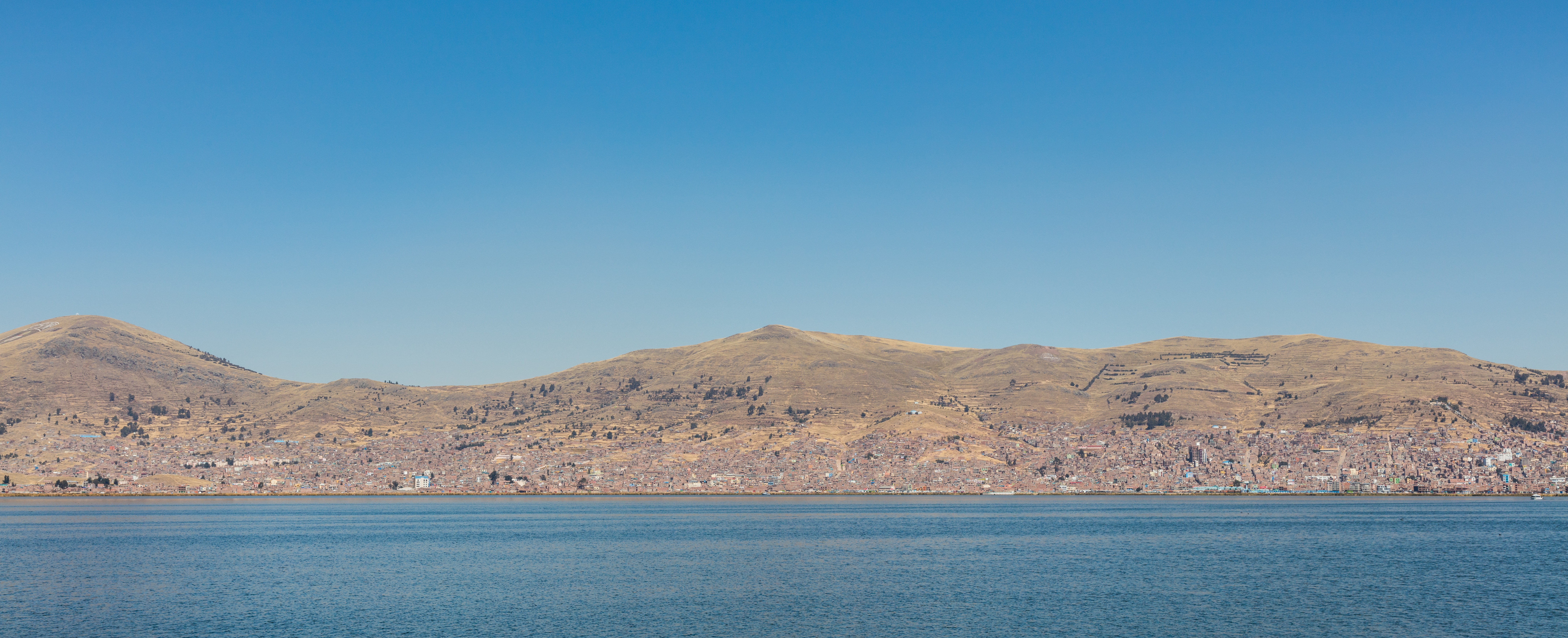 View of Puno, Peru